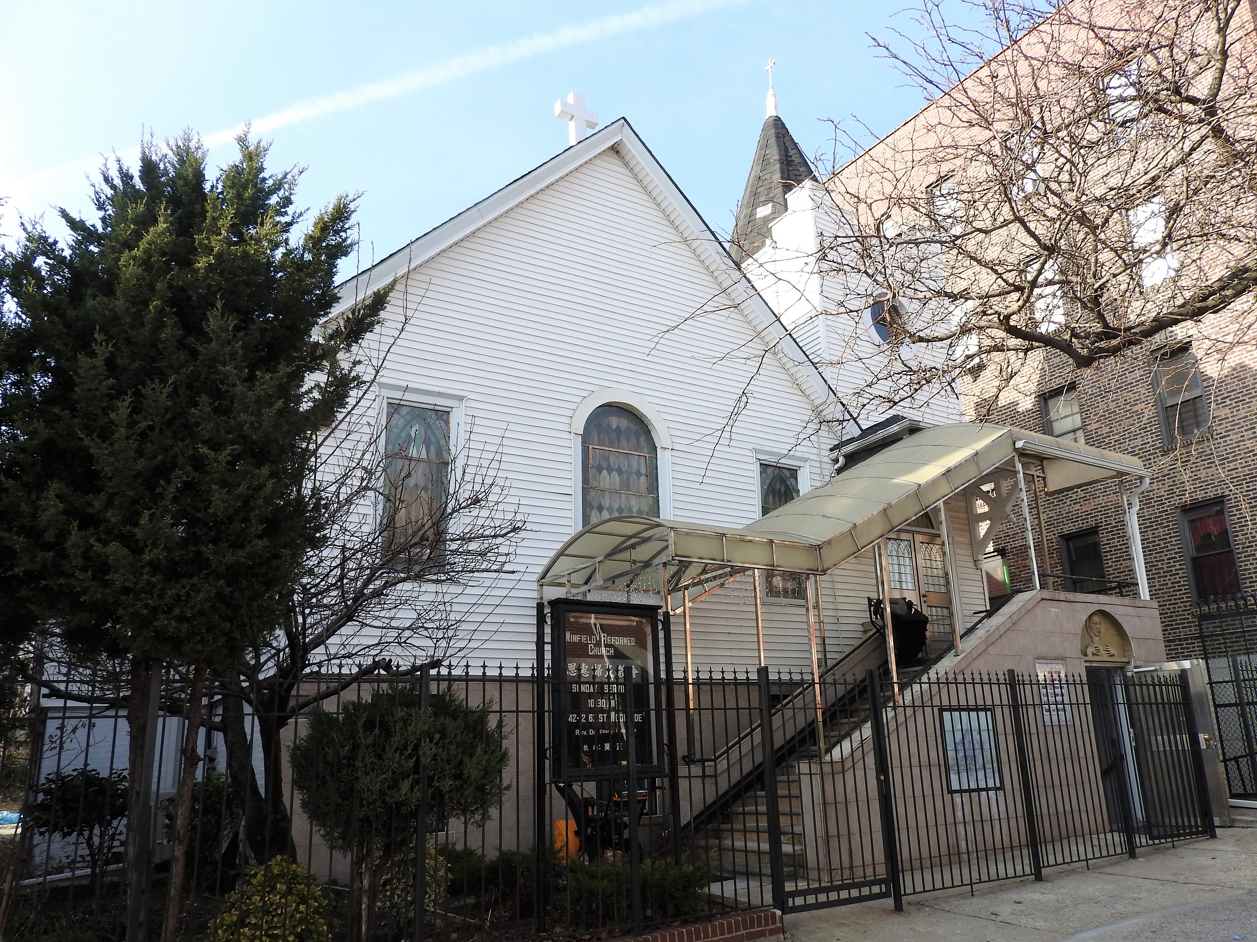 Looking northwest at shaded church